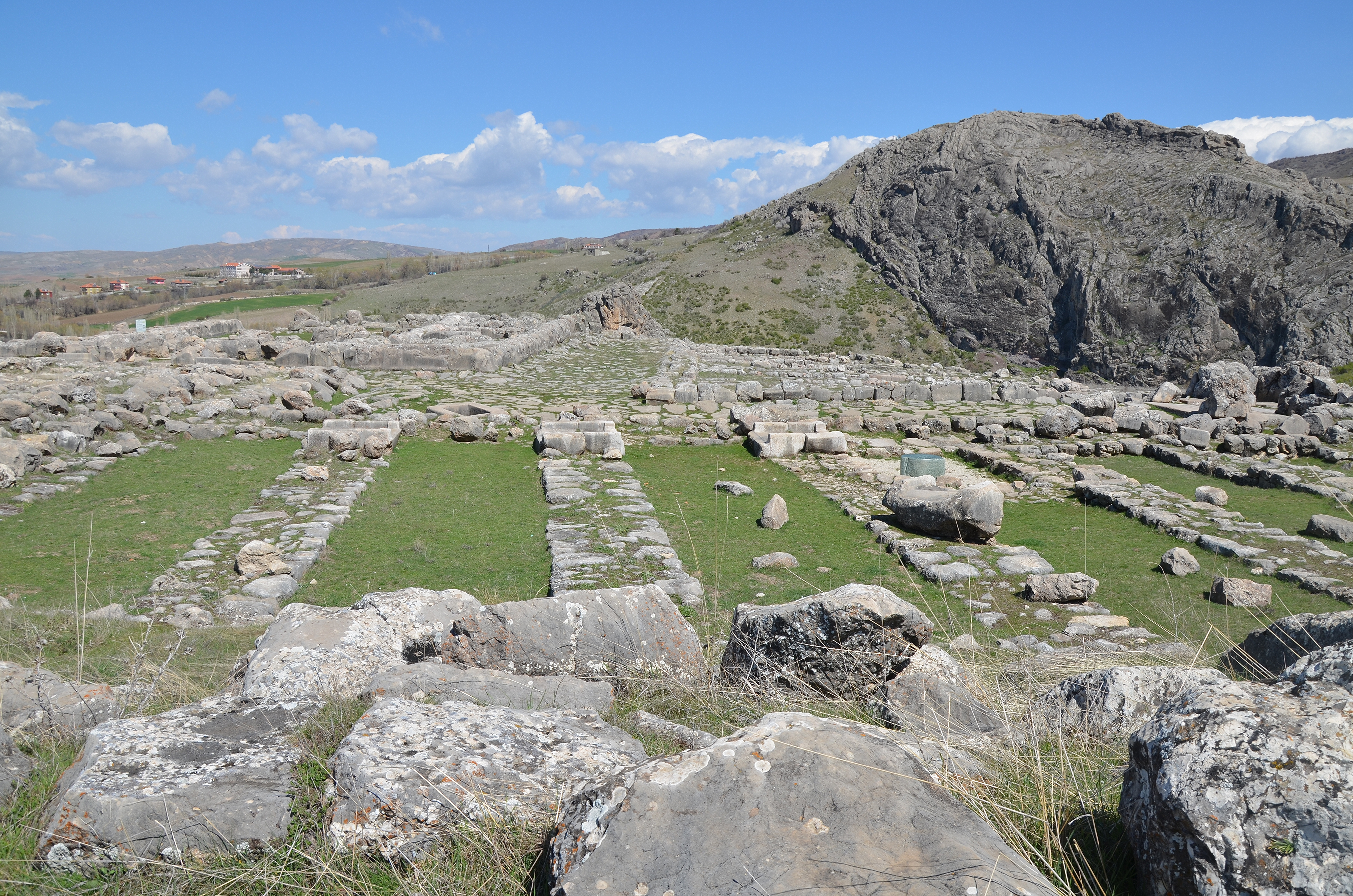 The area of the Great Temple with storerooms surrounding the temple proper, Hattusa, capital of the Hittite Empire